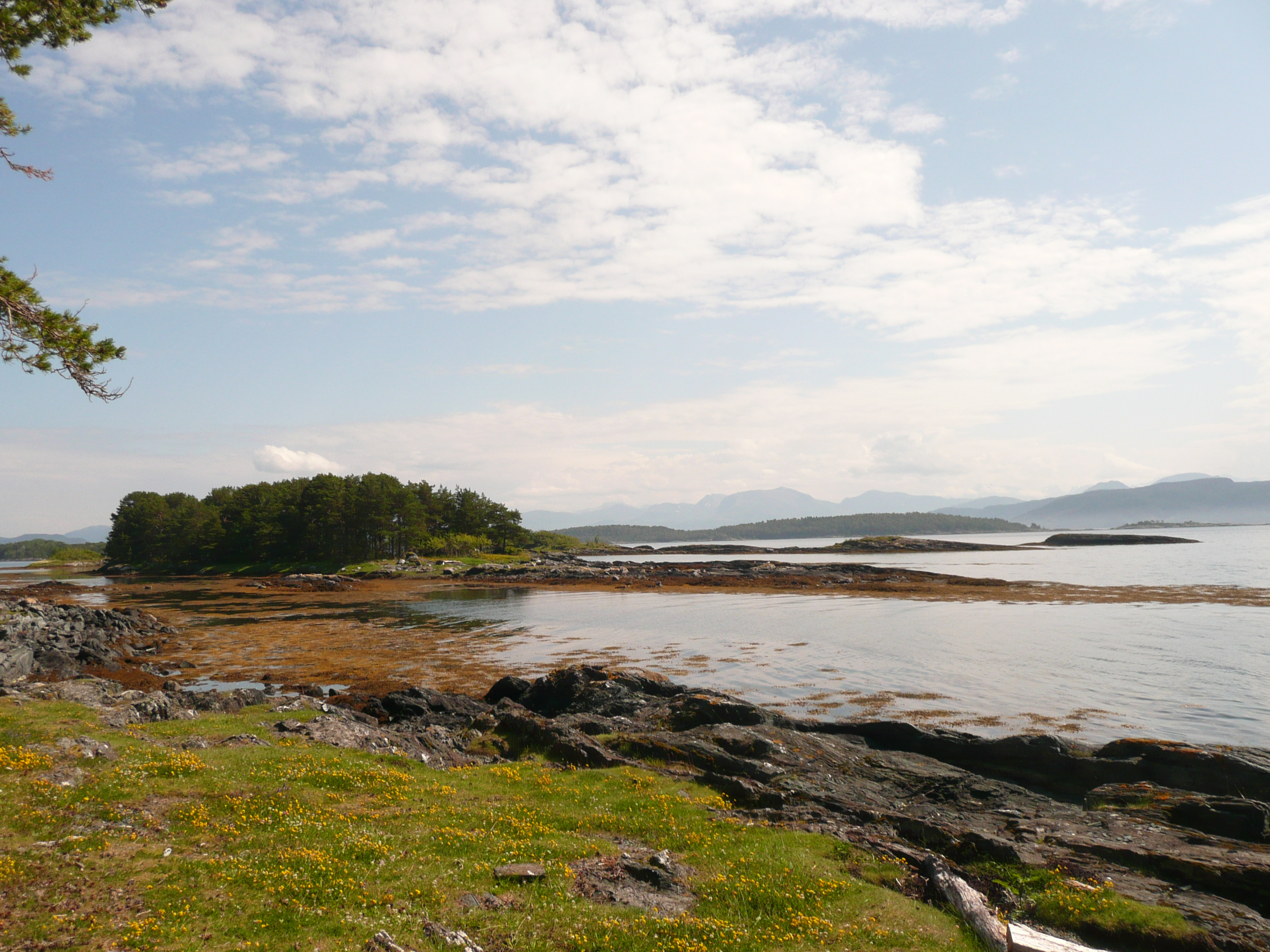 Panoramic view of the coast of the island Hjertøya, located right out of Molde.